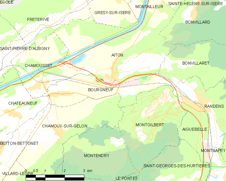 Map of French municipality